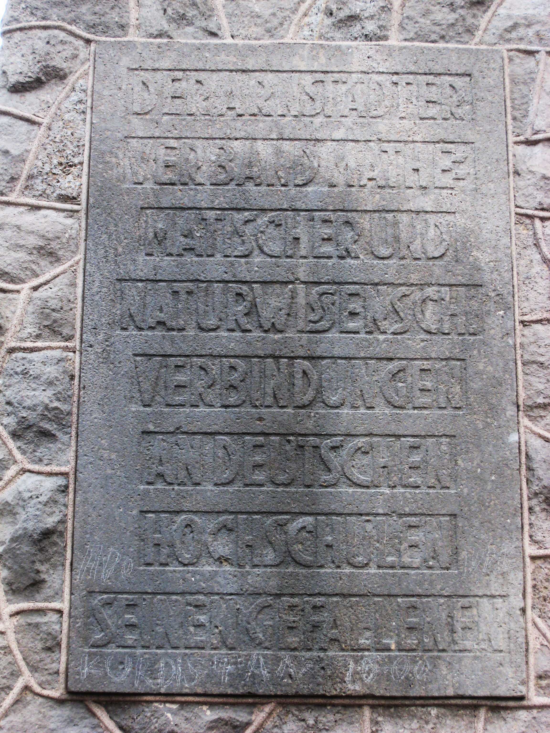 Arnstädter Verband mathematischer und naturwissenschaftlicher Verbindungen, war dead memorial, Arnstadt